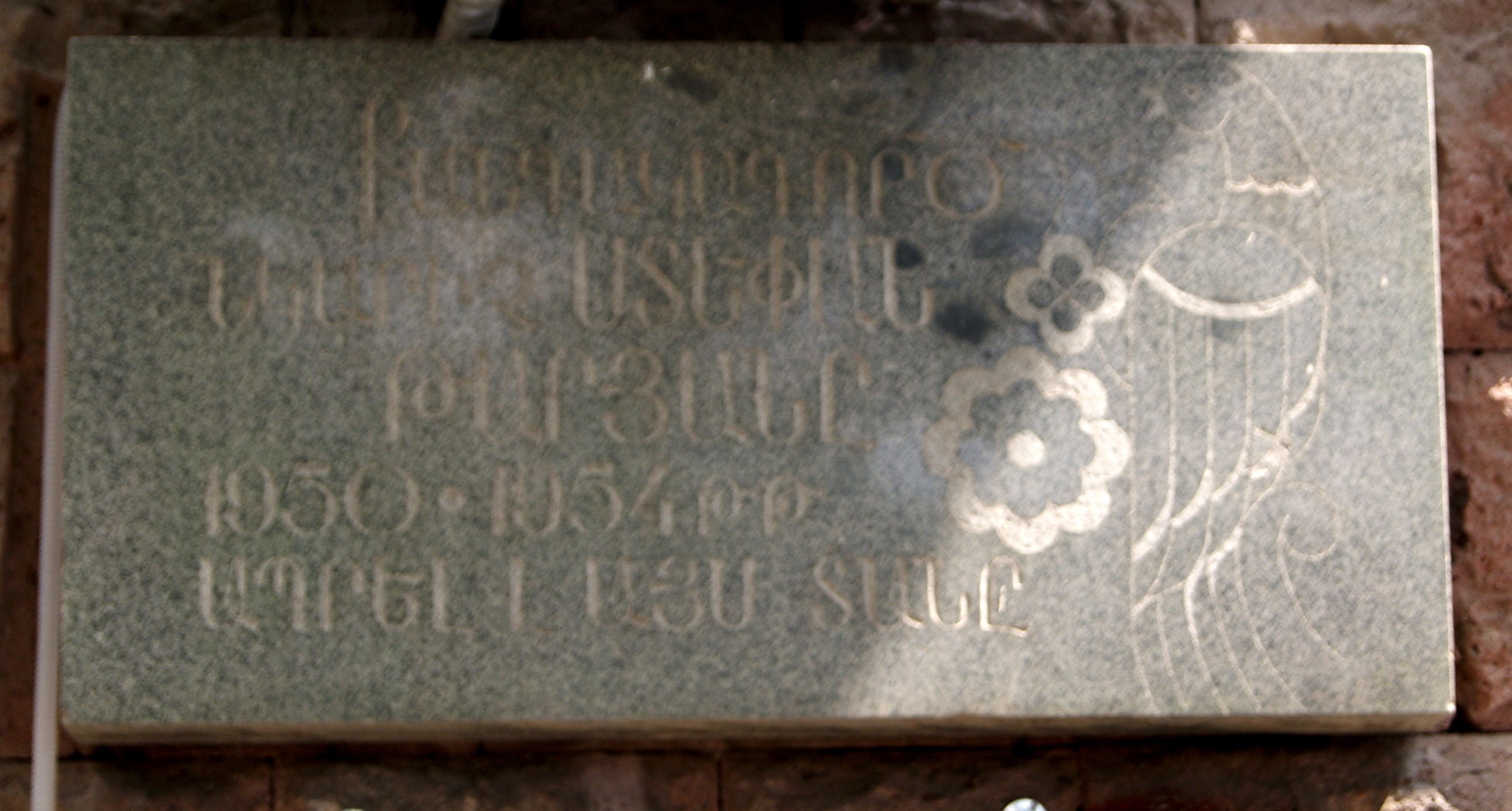 Stepan Taryan's Plaque